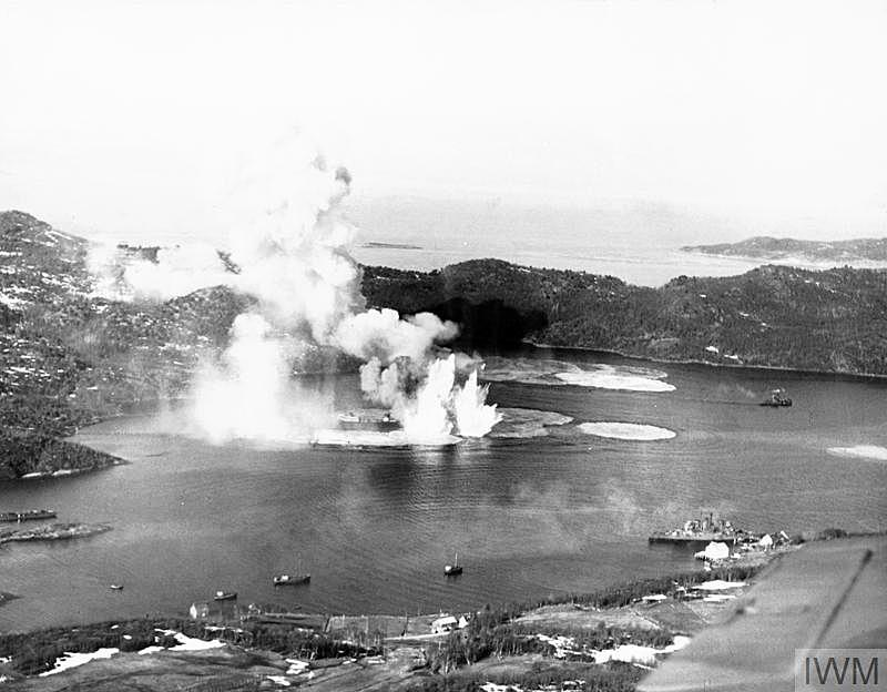 Operation Judgement, May 4, 1945, an attack on the U-boat base at Kilbotn, near Harstad, Norway. This proved to be the last offensive operation by the Home Fleet, as the war in Europe ended just a few days later. The main targets of the attack are, in fact, hidden behind water columns and smoke in the center of the photo. They were the depot ship Black Watch and the Type VIIC submarine U-711 — they were both sunk. The ship visible in the center of the pic is in all probability the motor vessel Senja, also sunk in this attack but raised and repaired after the war. U-711 was the last U-boat sunk by the Fleet Air Arm in WW2. The attack was carried out by Avenger torpedo-bombers and Wildcat fighters from Squadrons 846 (HMS Trumpeter, Capt. K. S. Colquhoun), 853 (HMS Queen, Capt. K. J. D'Arcy), and 882 (HMS Searcher, Capt. J. W. Grant).